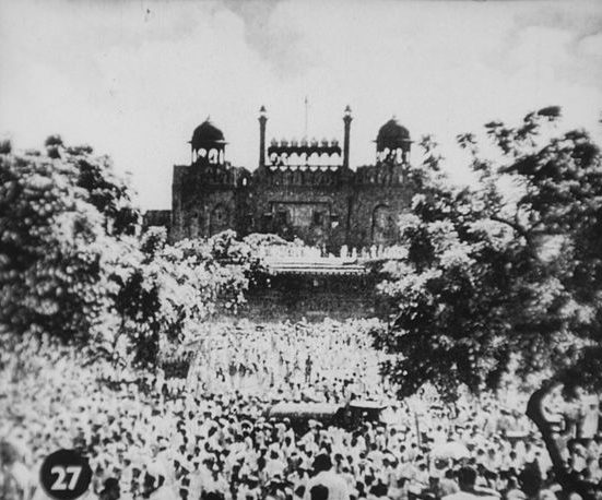 Cropped image of gathering at Red Fort in Delhi, India, on the occasion of the first Independence of India, 15 August 1947